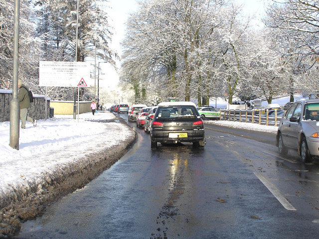 The "School Run" - Hospital Road, Omagh. Everyone wants to get to school at the one time causing daily early morning traffic jam. At times it is quicker to walk.